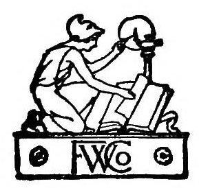 Logo of the Funk & Wagnalls Company, taken from the title page of Hoyt's New Cyclopedia Of Practical Quotations (1922).